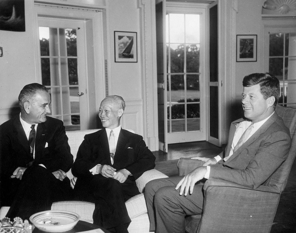 President John F. Kennedy meets with Chen Cheng, Vice President of the Republic of China. (L – R): Vice President Lyndon Johnson; Vice President Chen; President Kennedy (seated in fabric-covered rocking chair). Oval Office, White House, Washington, D.C.